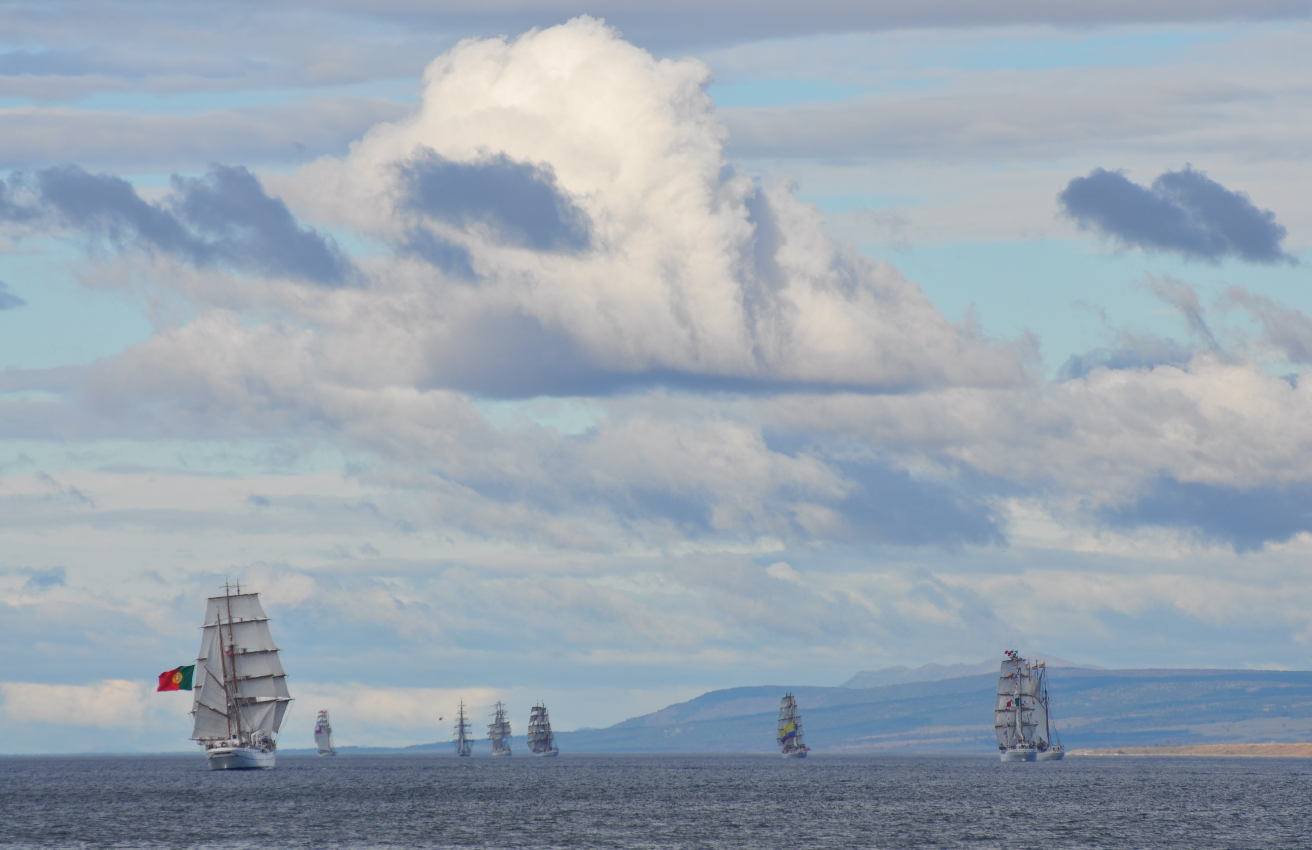 Velas Sudamérica 2010 (Punta Arenas)